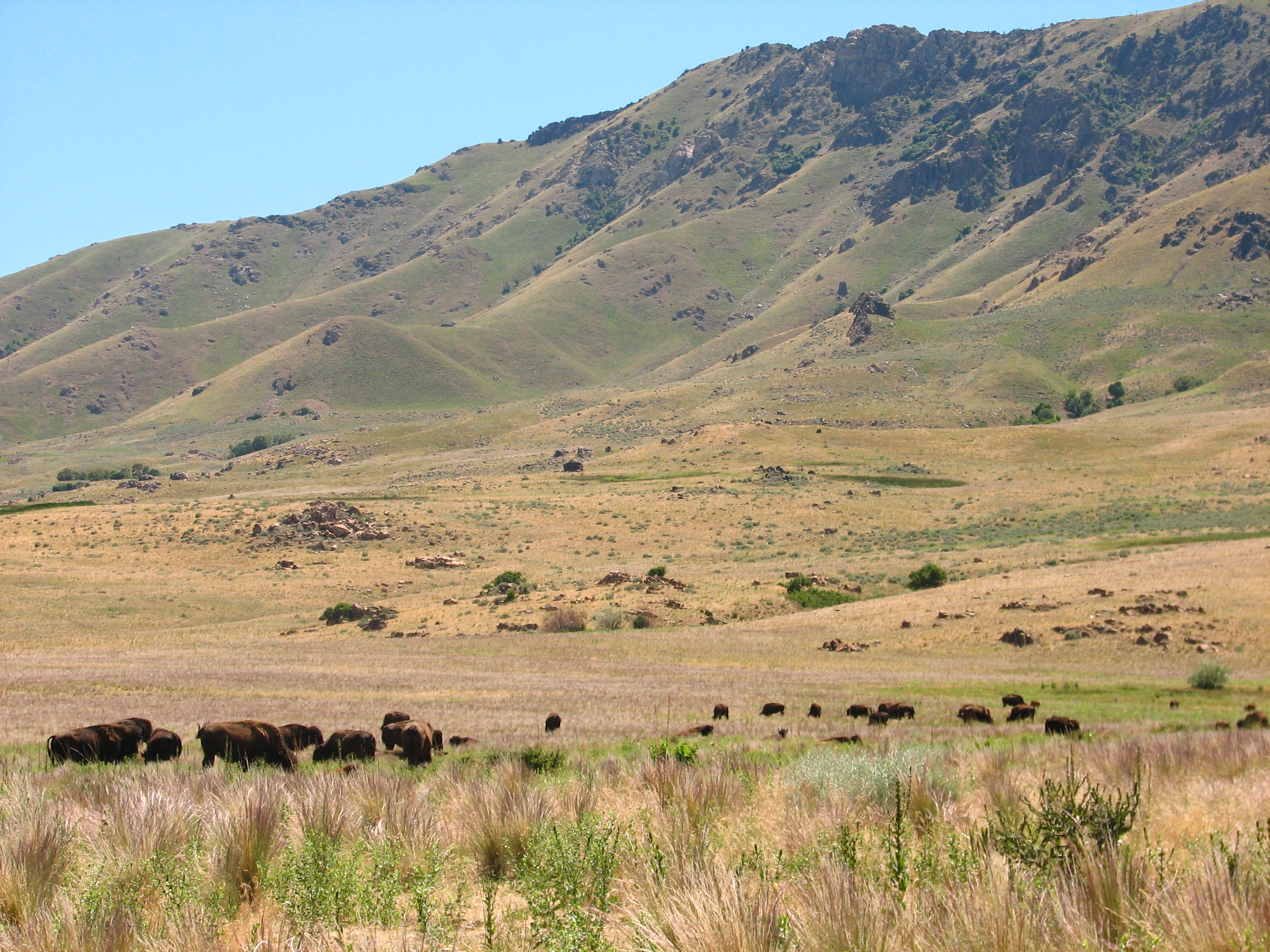 Author: Juozas Rimas